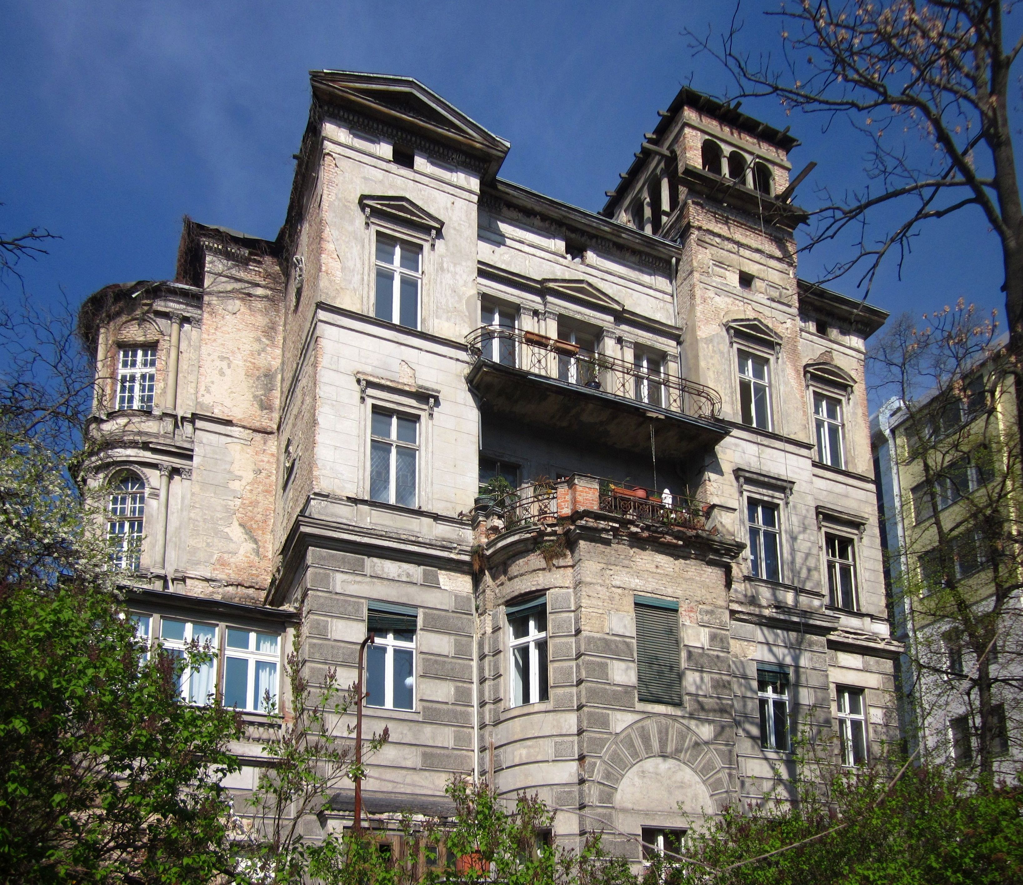 The Haus Lindenberg at Methfesselstraße No. 23/25 in Berlin-Kreuzberg, showing the garden side at the former villa colony Wilhelmshöhe. The house was built in 1874 by Ewald Becher. It has been designated a historic landmark.